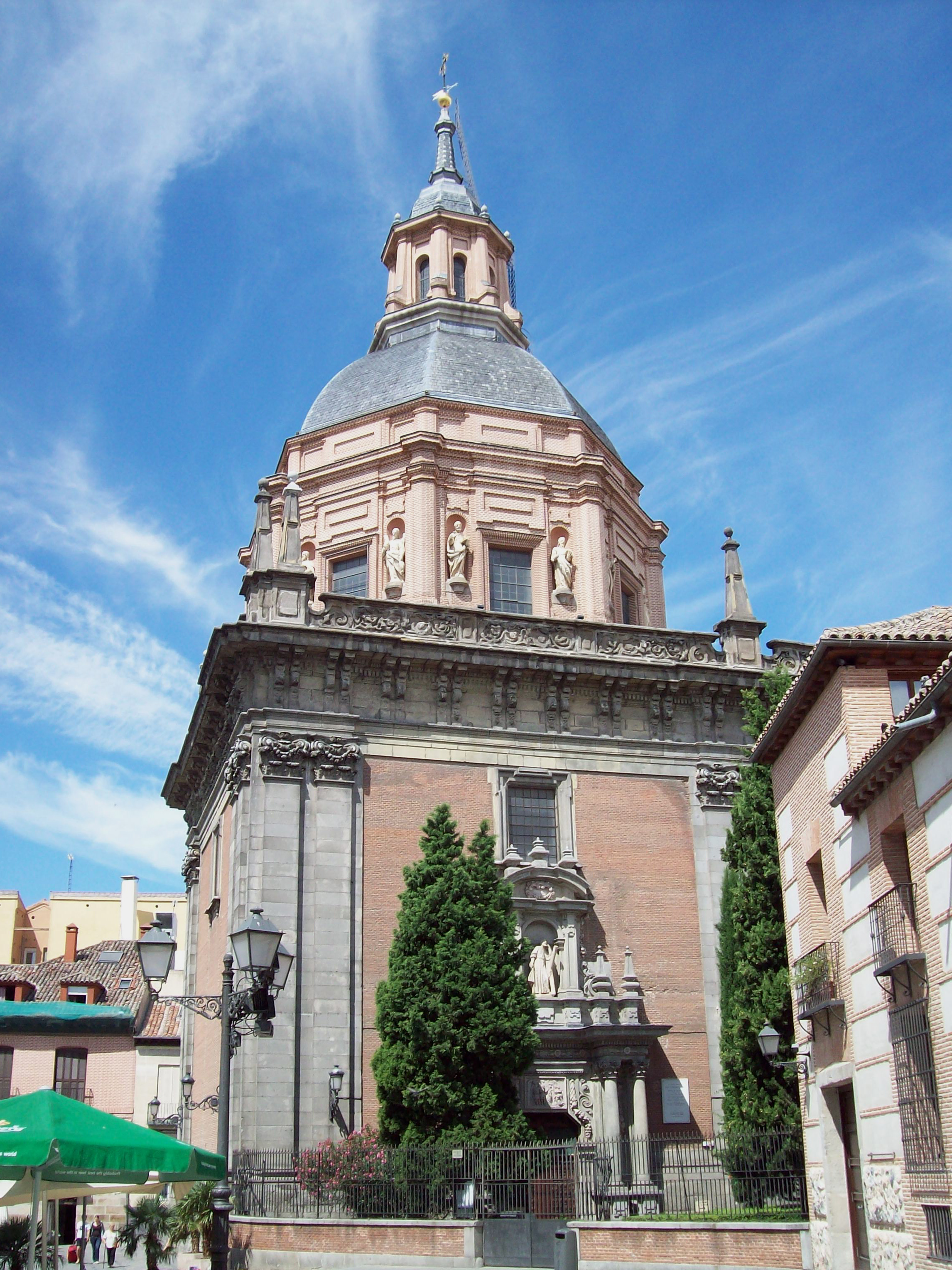 View of St. Isidore's Chapel at St. Andrew’s Church in Madrid (Spain).